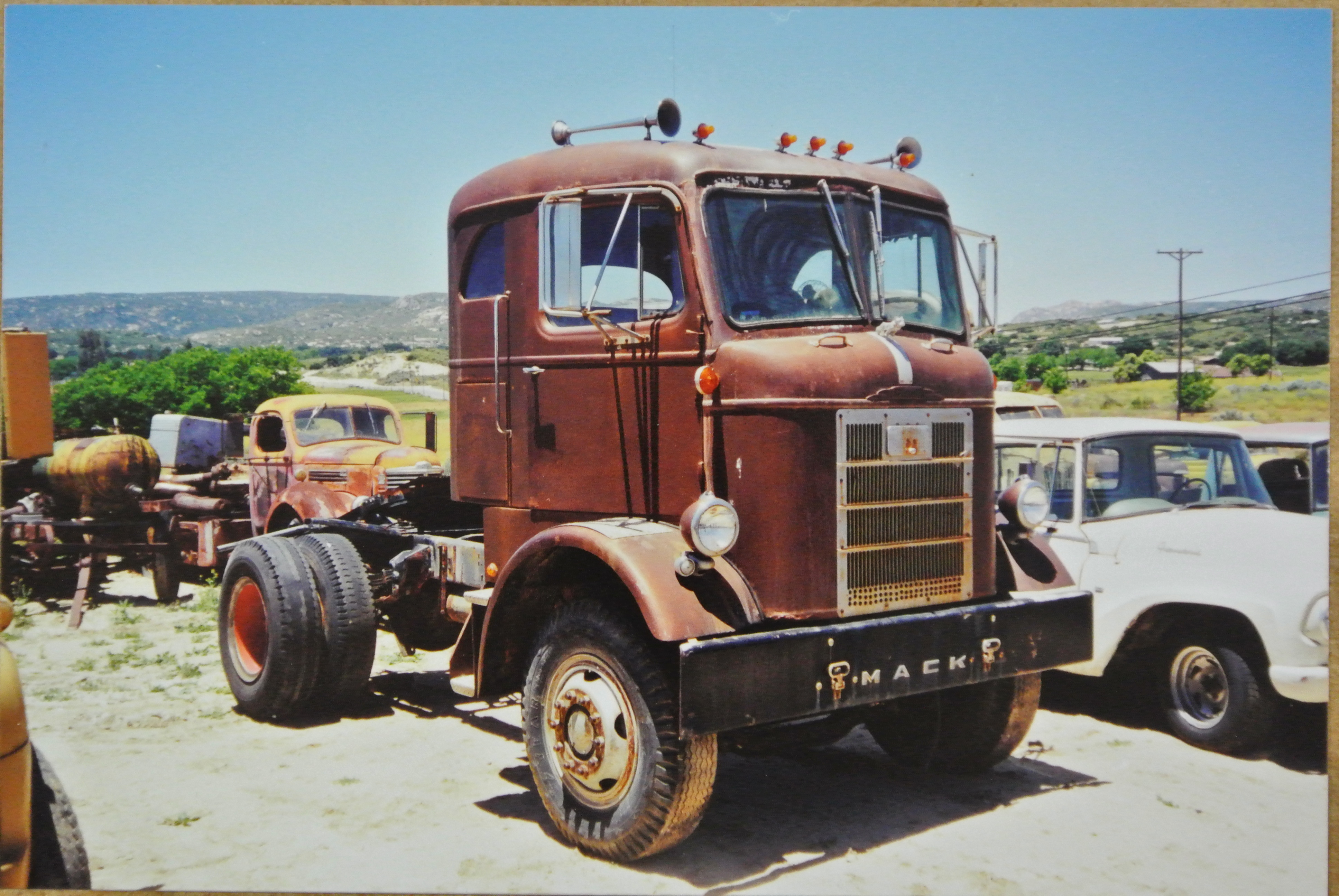 Motor Transport Museum ~2000 MACK COE 1956 Mack H-63 5 Ton Sleeper Cab Tractor.